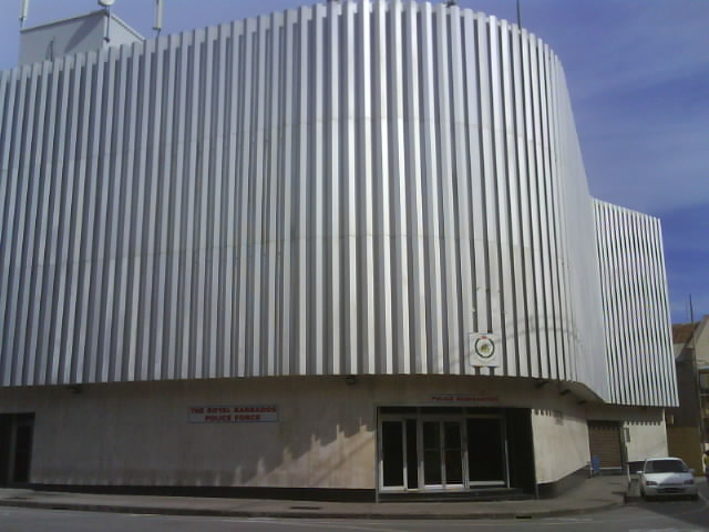 The Royal Barbados Police Force Headquarters.